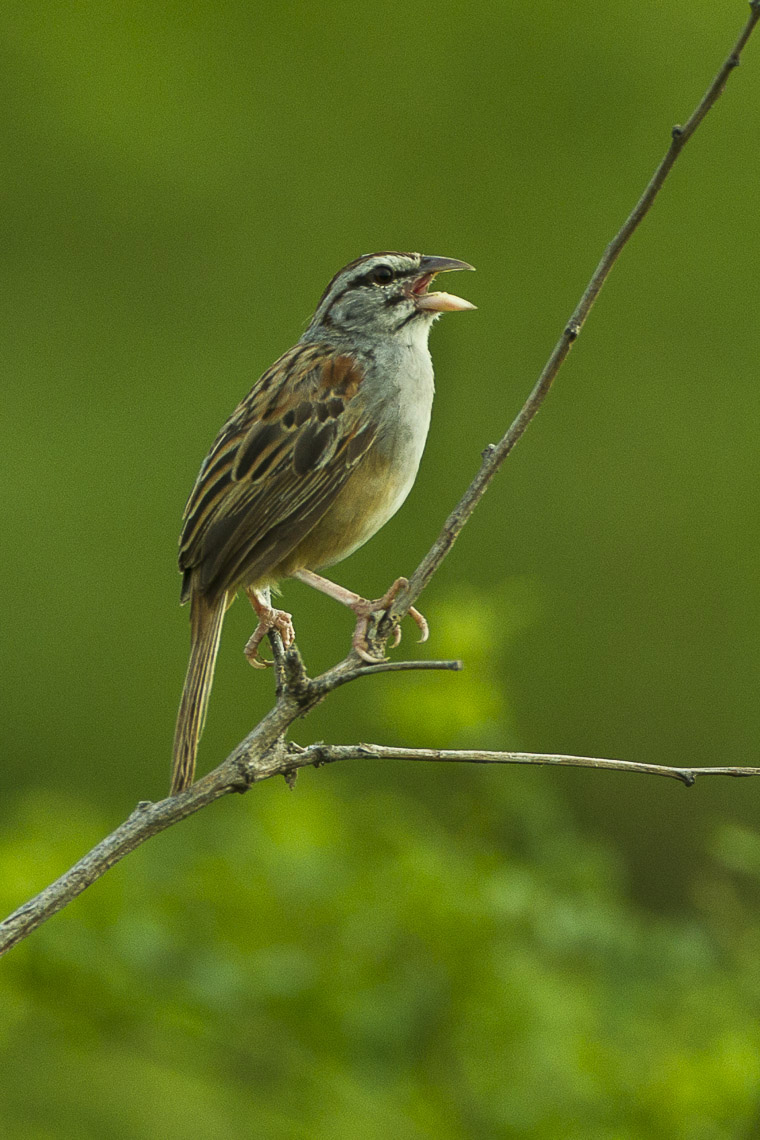 Cinnamon-tailed Sparrow - Chiapas - Mexico_S4E8139